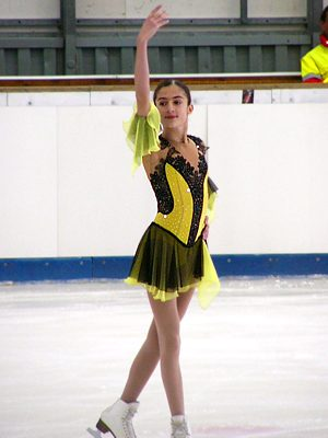 Emma Hagieva during her free skate at the 2004 Junior Grand Prix event in Germany